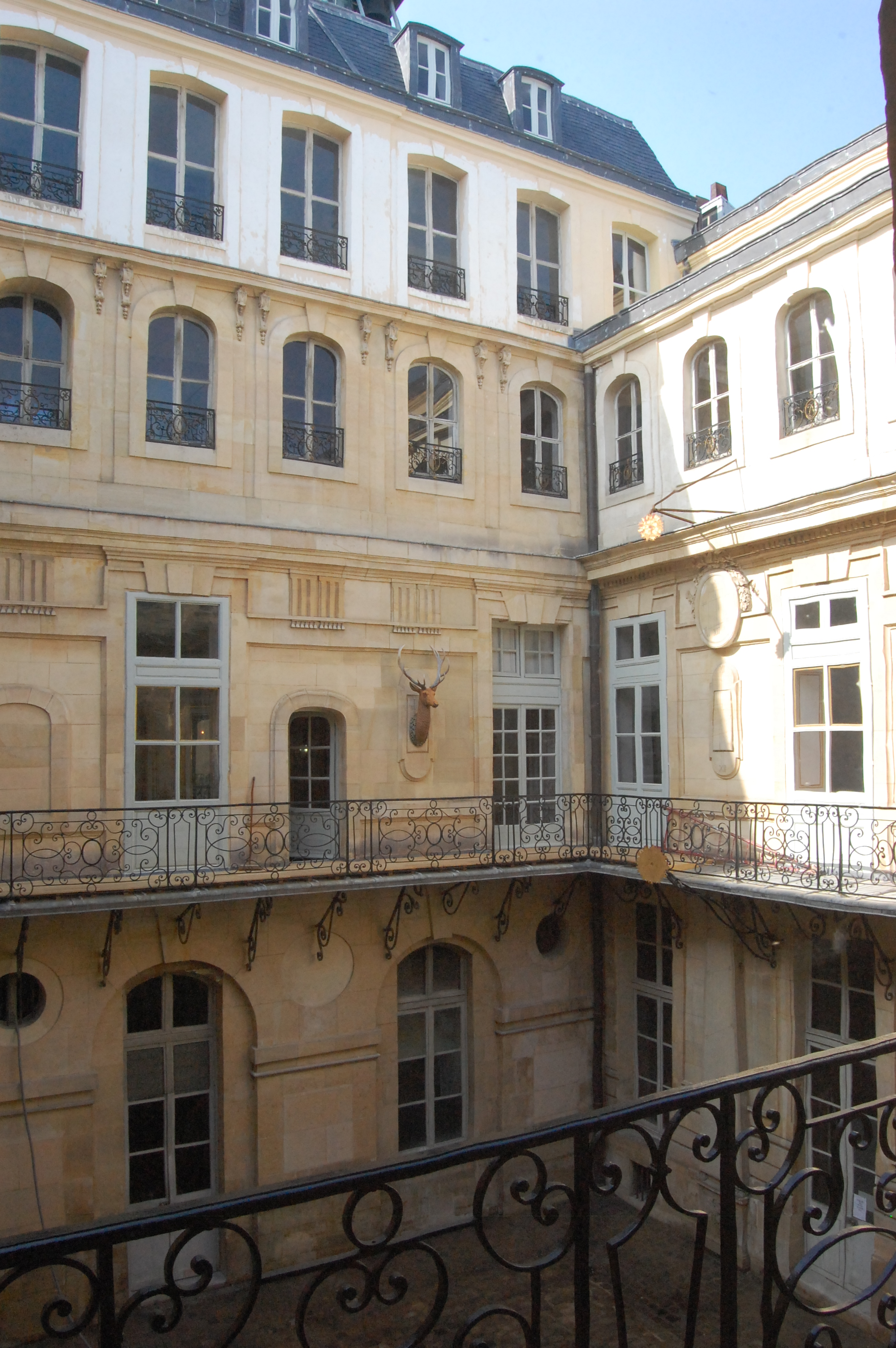 Cour des Cerfs (deers courtyard)